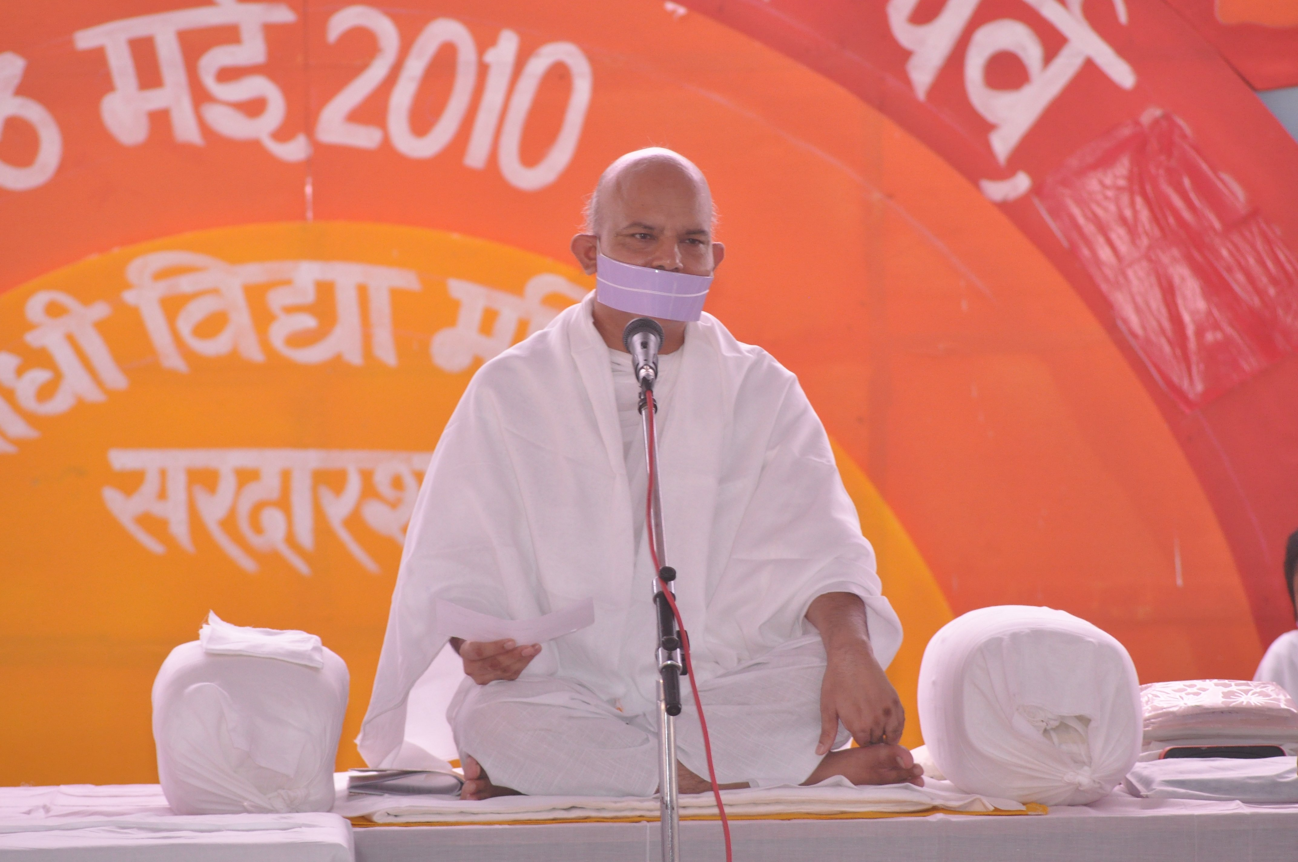 A Padhabhisekh Samaroha was held at Sardarshahar on 23rd May 2010 in the presence of nearly 1 lakh devotees including prominent personalities and politicians of BJP and Congress..Acharya Mahapragya had nominated Acharya Mahashraman as the Yuvacharya of the Terapanth in 1997 at Gangashahar(Bikaner). At the age of 36 he was nominated as Yuvacharya. Shri Mahashraman became the 11th Acharya of Jain Terapanth on his 49th birthday.